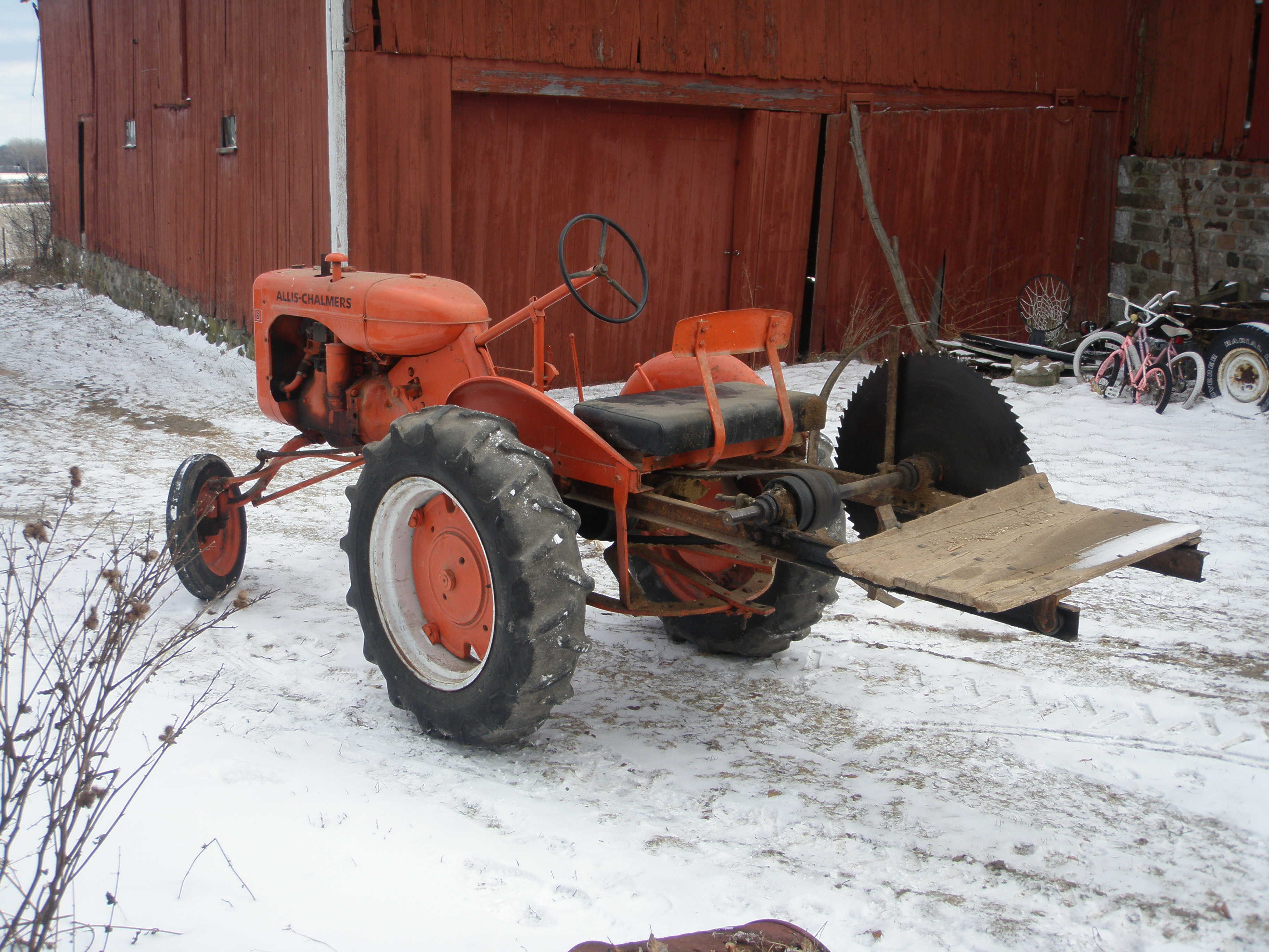 An Allis-Chalmers model B tractor with a portable sawmill style buzz saw mounted on the back